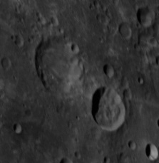 Oblique view of Malyy (largest crater, above left of center) and Malyy G (below right of center), on the far side of the moon. North is at top.